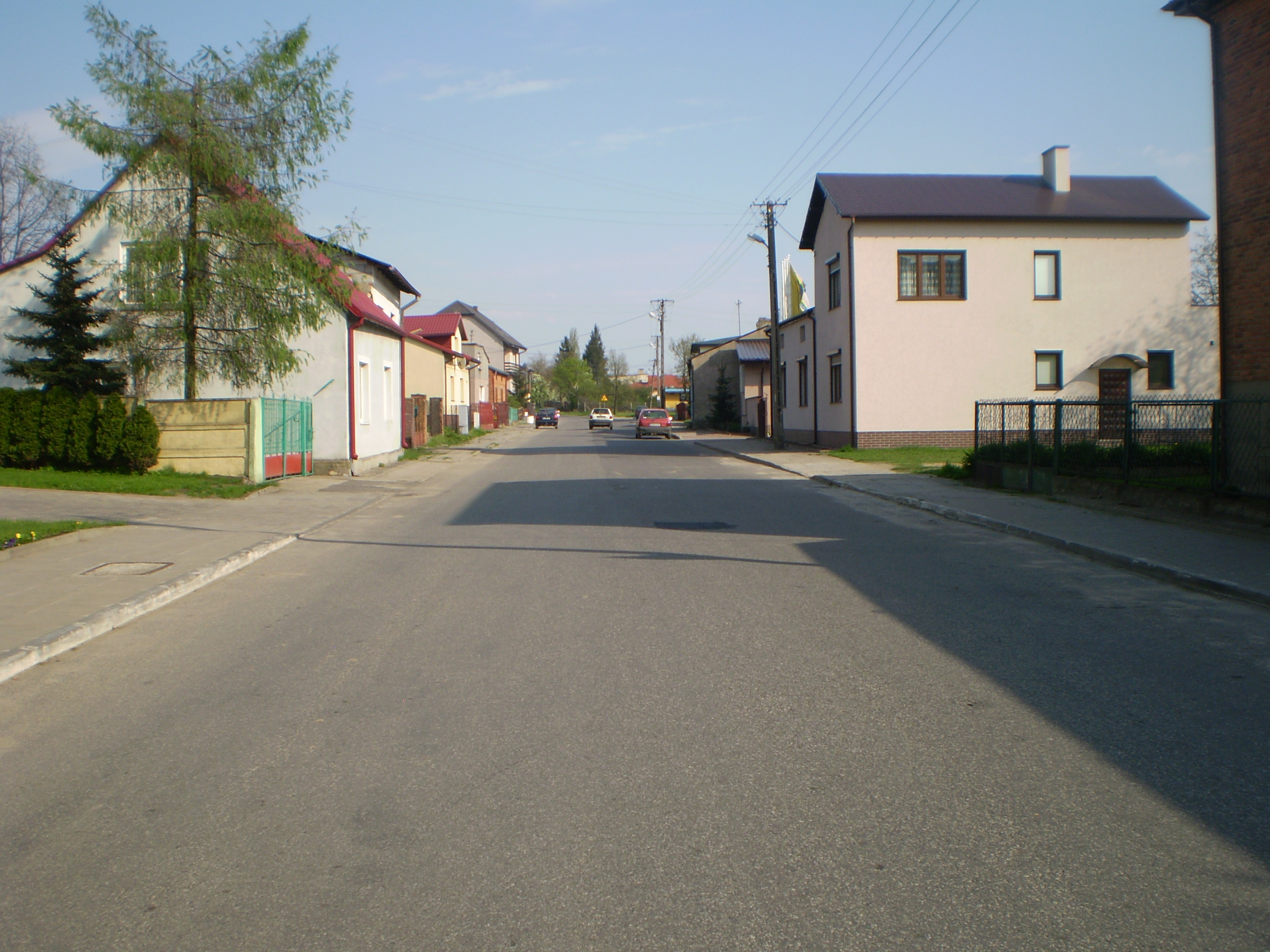 Zadzim